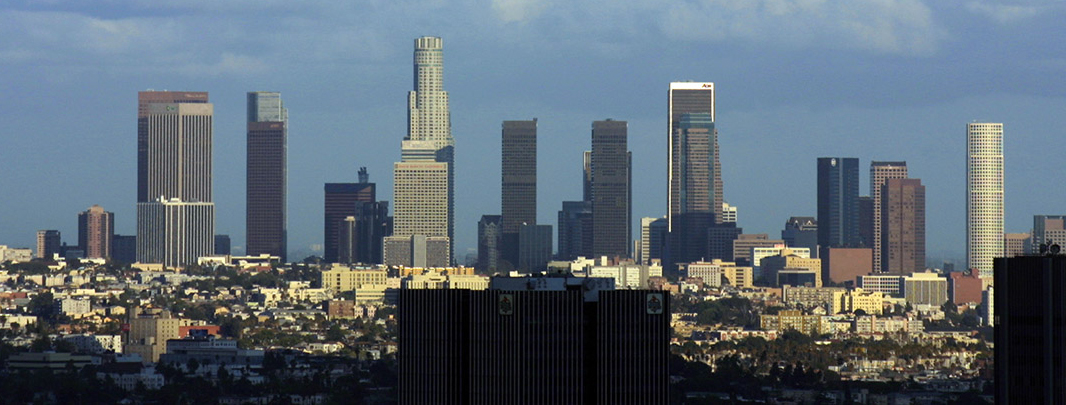 Downtown Los Angeles